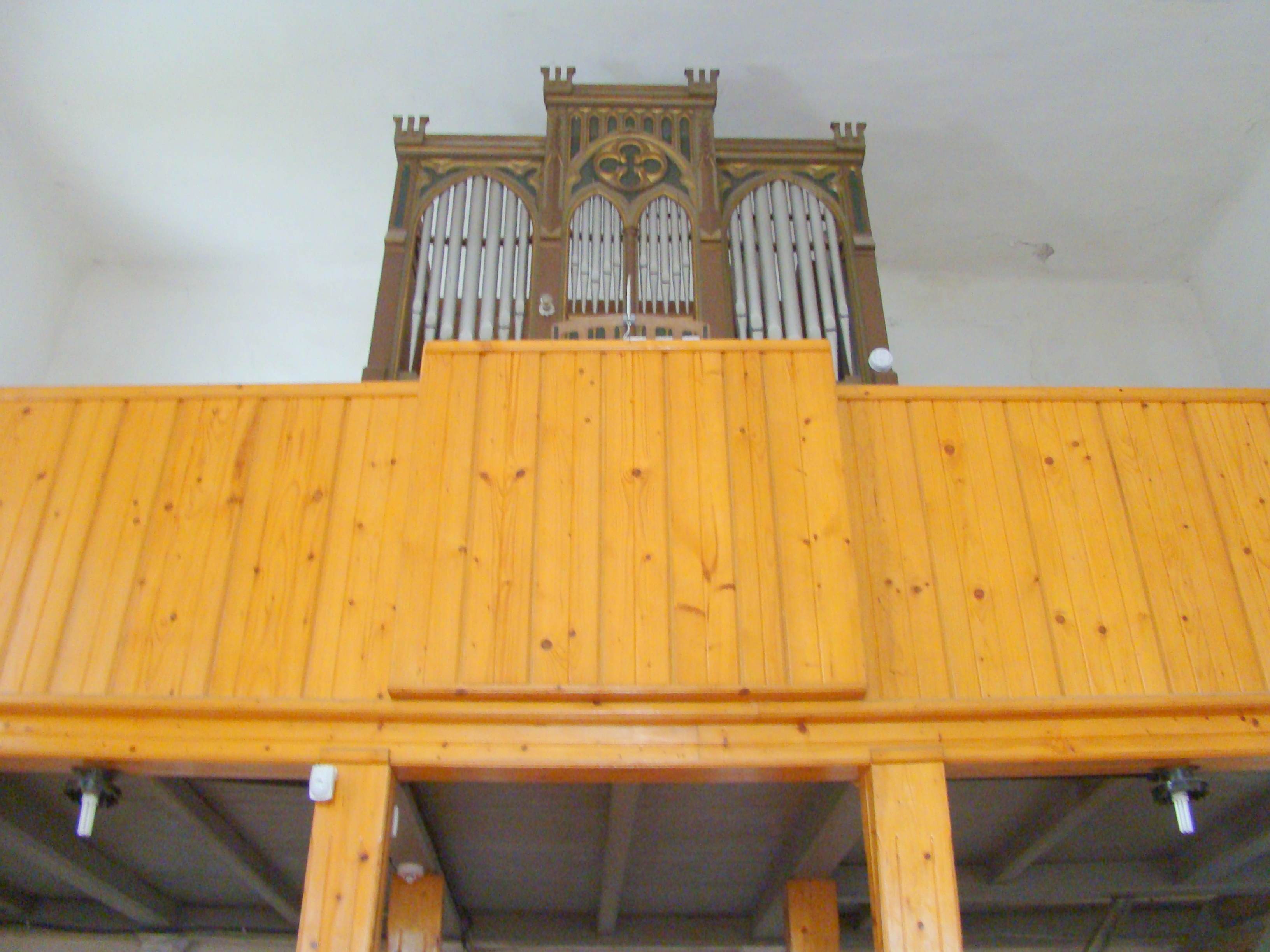 Reformed church in Albești, Mureș county, Romania